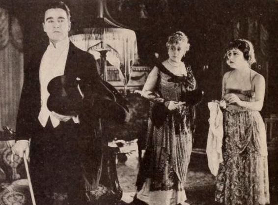 Still from the American drama film Society for Sale (1918) with William Desmond, Lillian Langdon, and Gloria Swanson, on page 27 of the May 11, 1918 Exhibitors Herald.